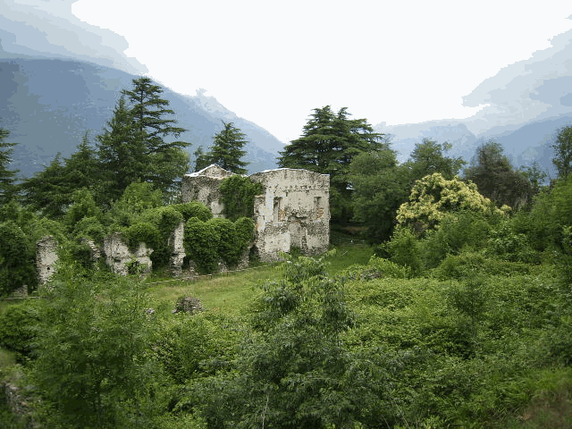 Ruins of the church of Fort Fuentes, near Colico, Italy